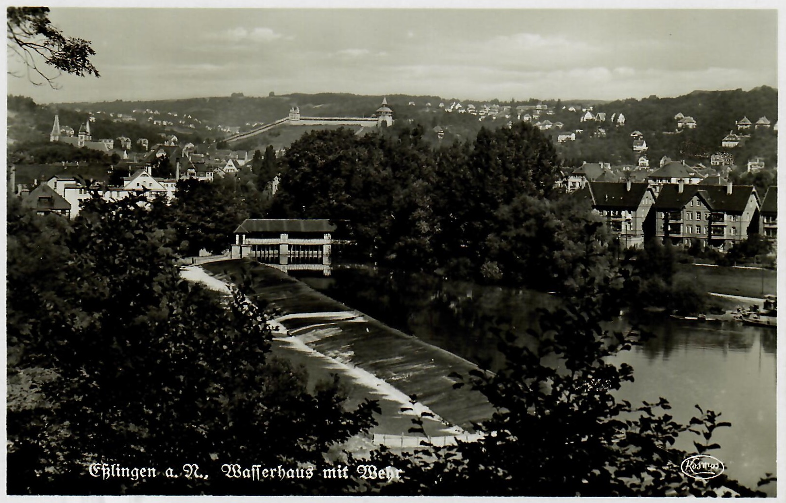 Water house with weir in Esslingen am Neckar. Postcard